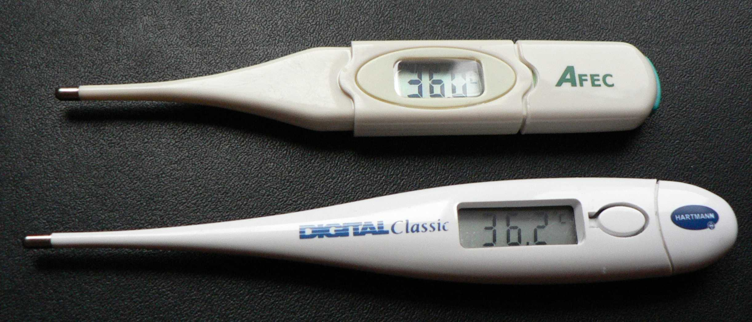 electronic thermometers